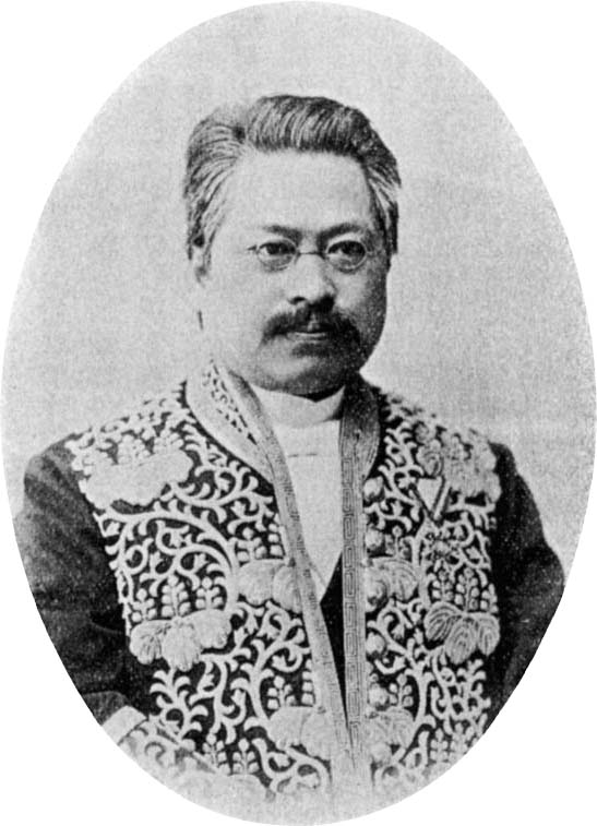 Mr. Hideo Takamine, director of the Women's Higher Normal School.